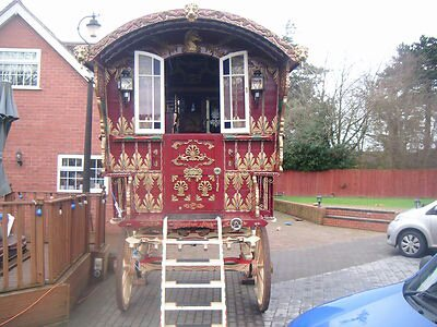 Romnichal Wagon